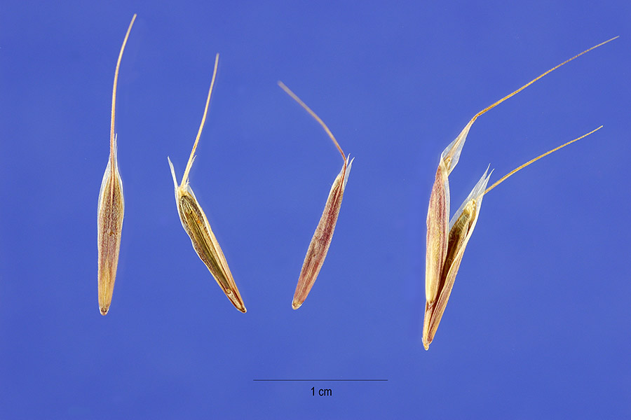 Seeds of Bromus tectorum